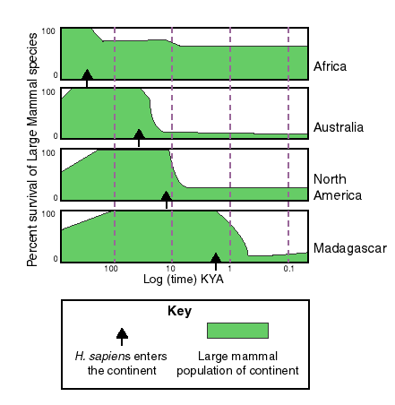 The timing of extinctions follows the "march of man" (after Martin, 1989) ; source : Martin P. S. (1989). Prehistoric overkill: A global model. In Quaternary extinctions: A prehistoric revolution (ed. P.S. Martin and R.G. Klein). Tucson, AZ: Univ. Arizona Press. pp. 354–404. ISBN 0-8165-1100-4.